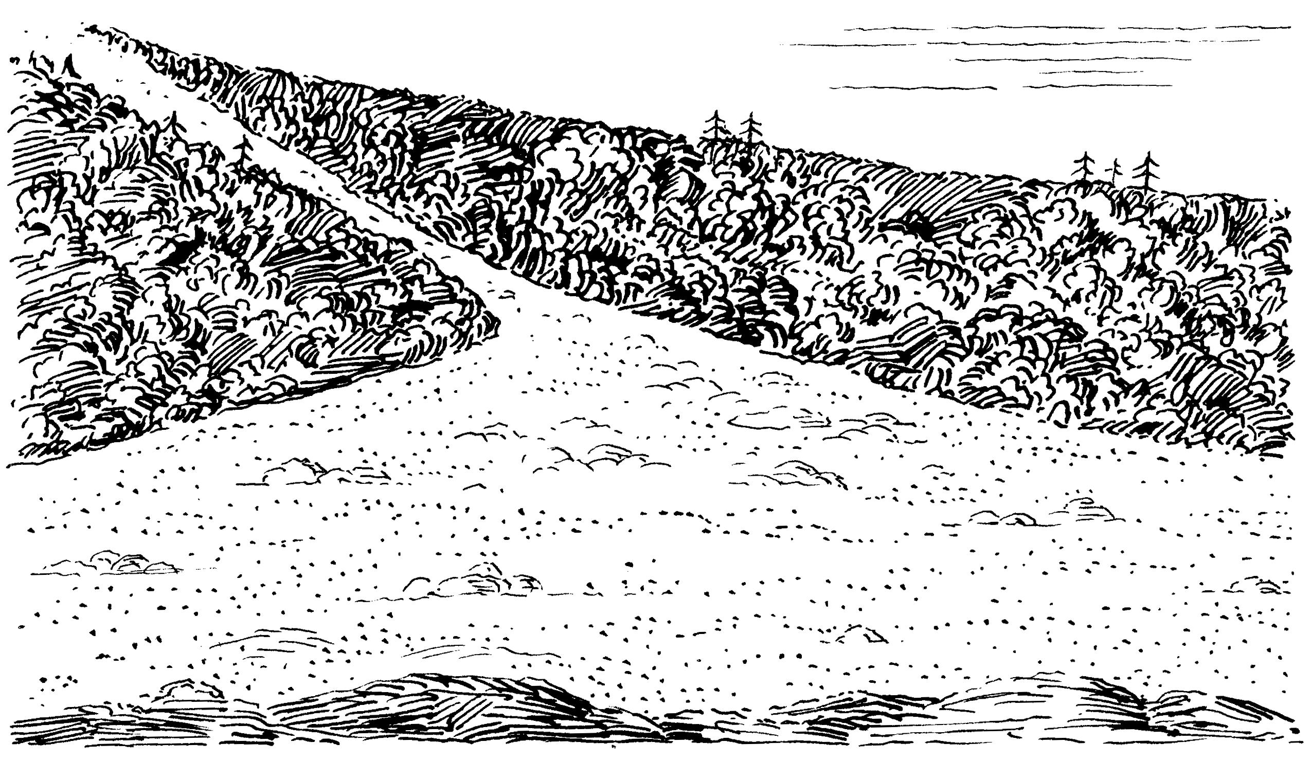 Line art drawing of alluvial fans.